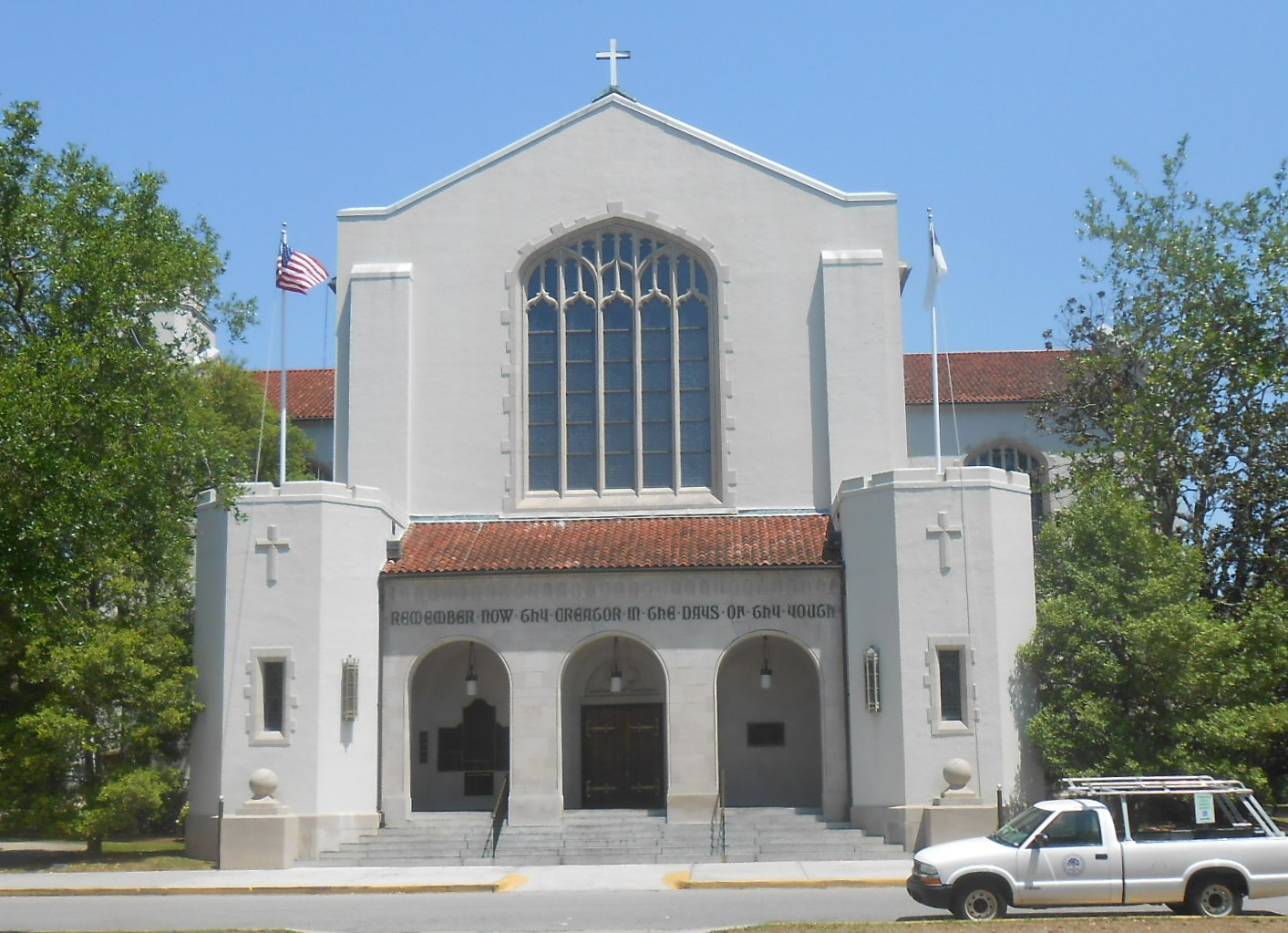 Summerall Chapel, Citadel, Charleston, South Carolina